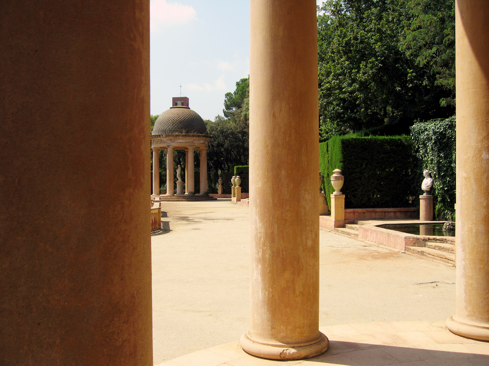 Parc del Laberint d’Horta in Barcelona (Catalonia).